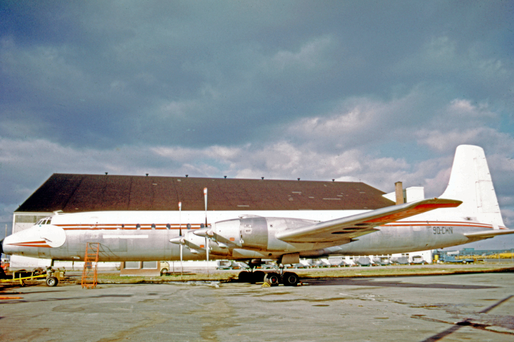 Canadair CC-106 Yukon 9Q-CWN of SGA Zaire at Montreal Dorval in 1973